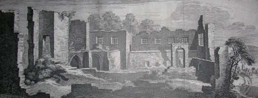 An engraving by Samuel and Nathaniel Buck, published in March 1739 by act of Parliament showing the ruined remains of Hartley Castle (or Harcla Castle) with Kirkby Stephen just visible. Affirmed as out of copyright by the lady at Kendal Library who found it for me